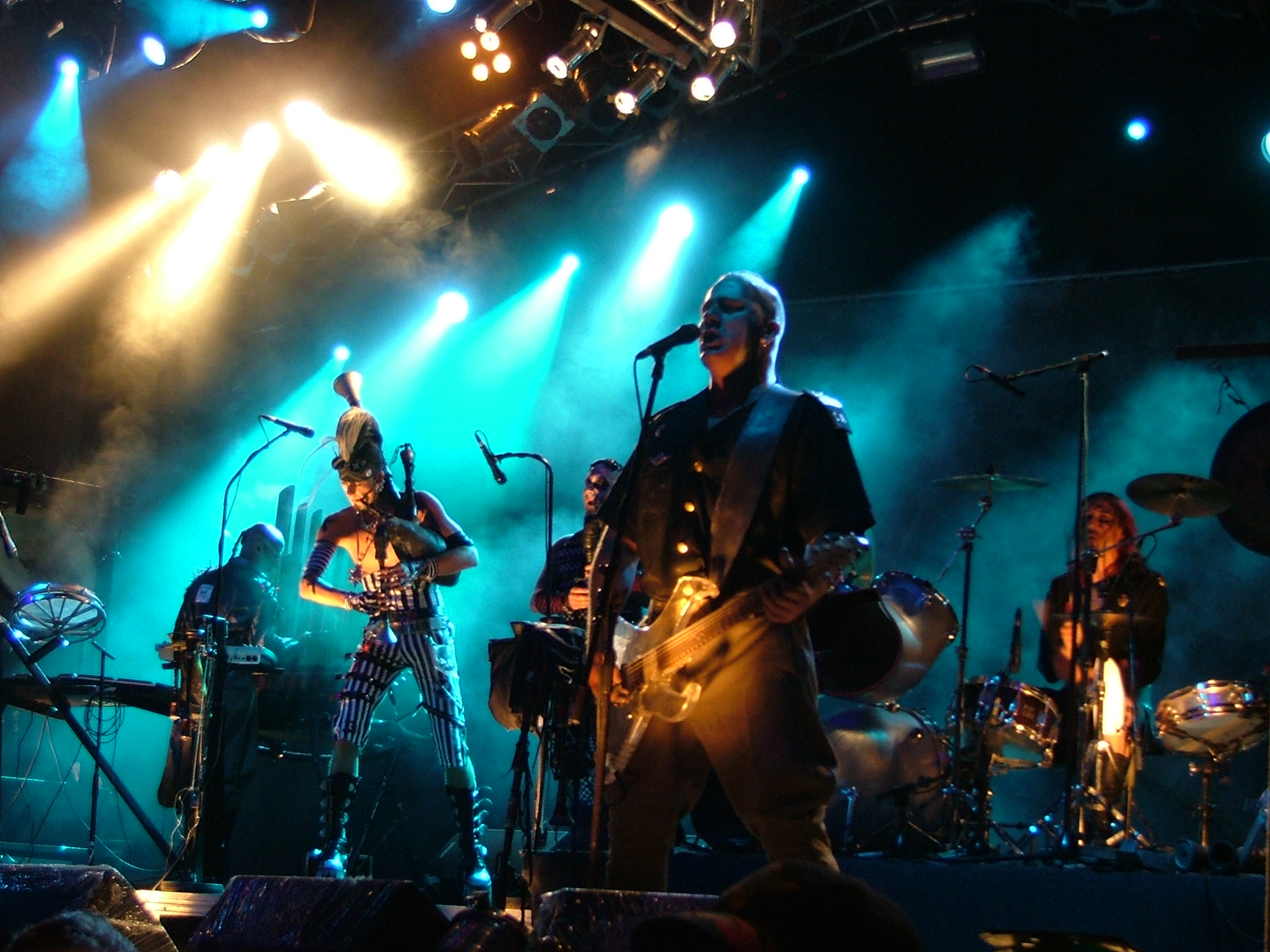 German medieval rock band Tanzwut at the Summer Breeze in Dinkelsbühl